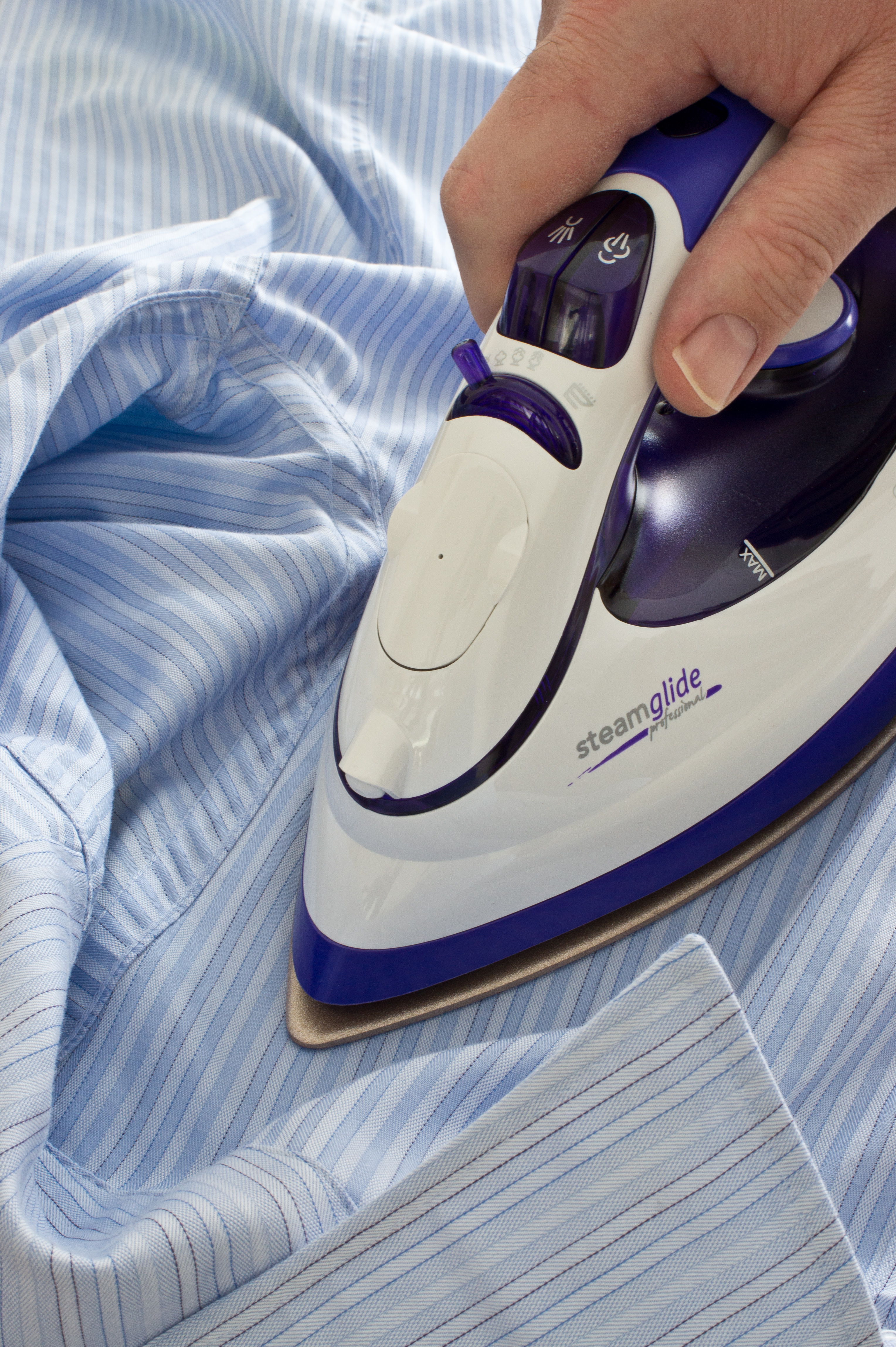 Ironing a shirt using a modern electric steam iron made by Russell Hobbs.